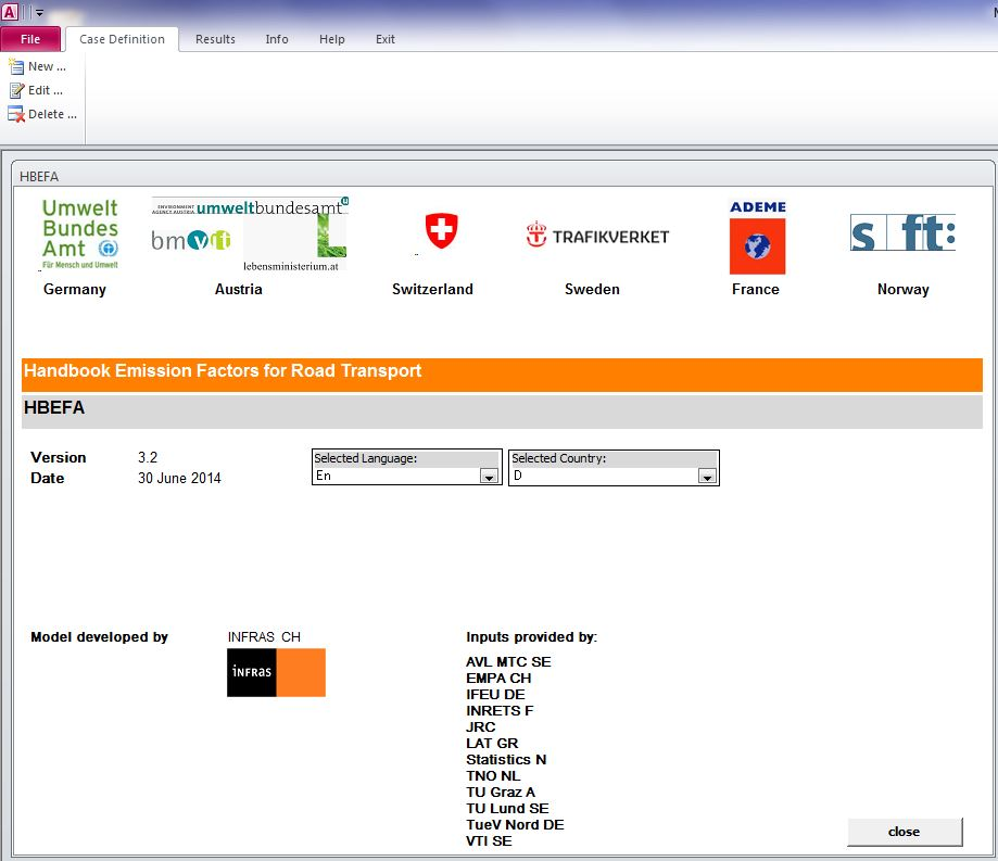 HBEFA 3.2 start page